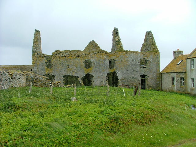 Ormacleit Castle The castle straddles the grid line, but two thirds of it is in this square.